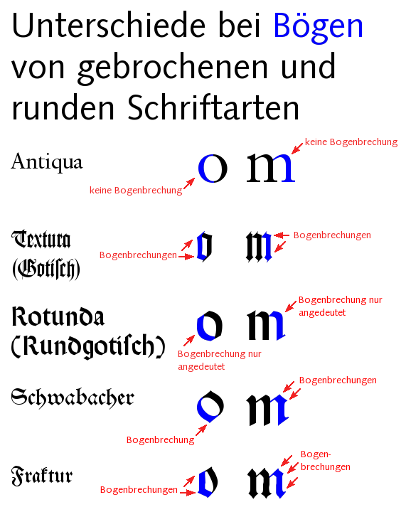 Differences between "round" and fracture fonts regarding their curves